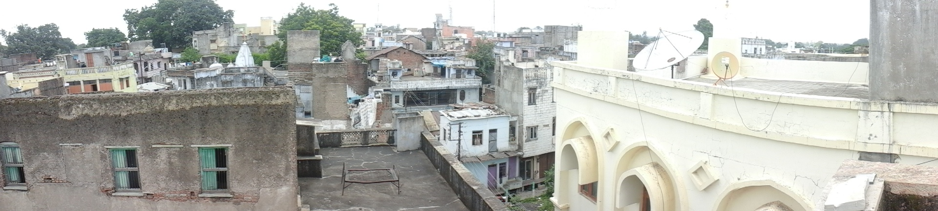 This panoramic view shows the western view of the locatlity - Bada Bagela at Manasa.